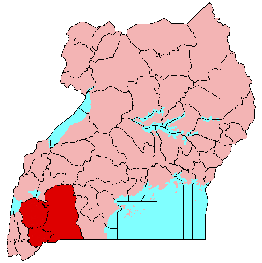 Ugandan kingdom of Ankole and its districts Created by editing picture